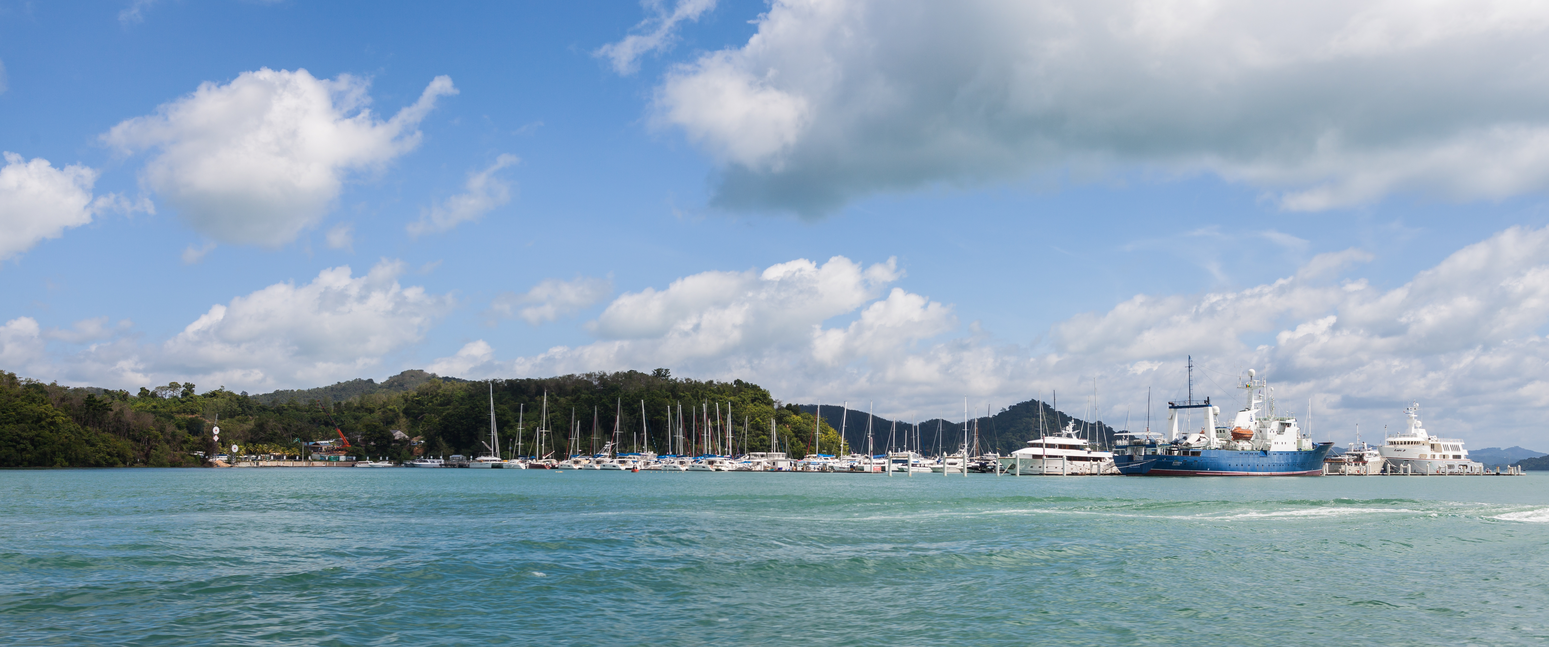 Ao Por pier, Phuket, Thailand